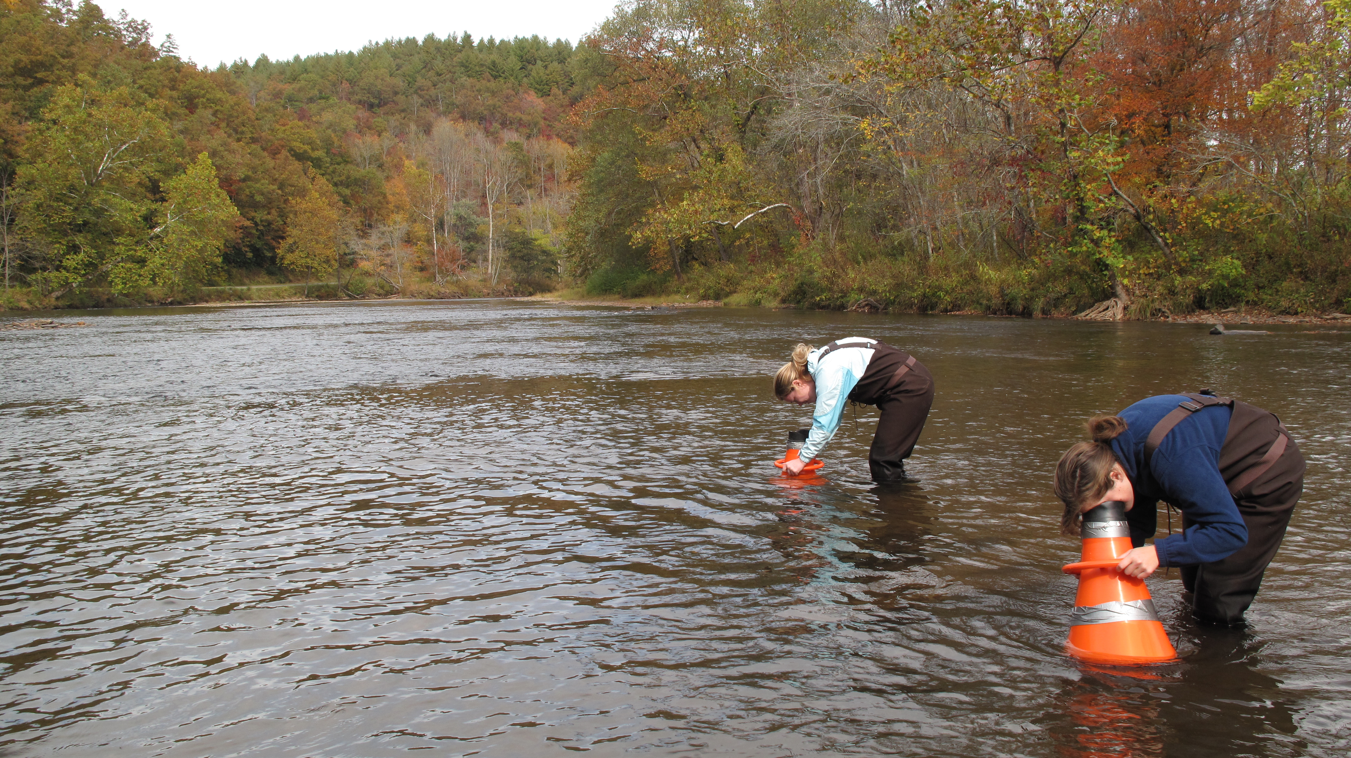 Montreat College students had a chance to try their hand at finding mussels using a view bucket. Little Tennessee River Swain County October, 2010 Credit: Gary Peeples/USFWS